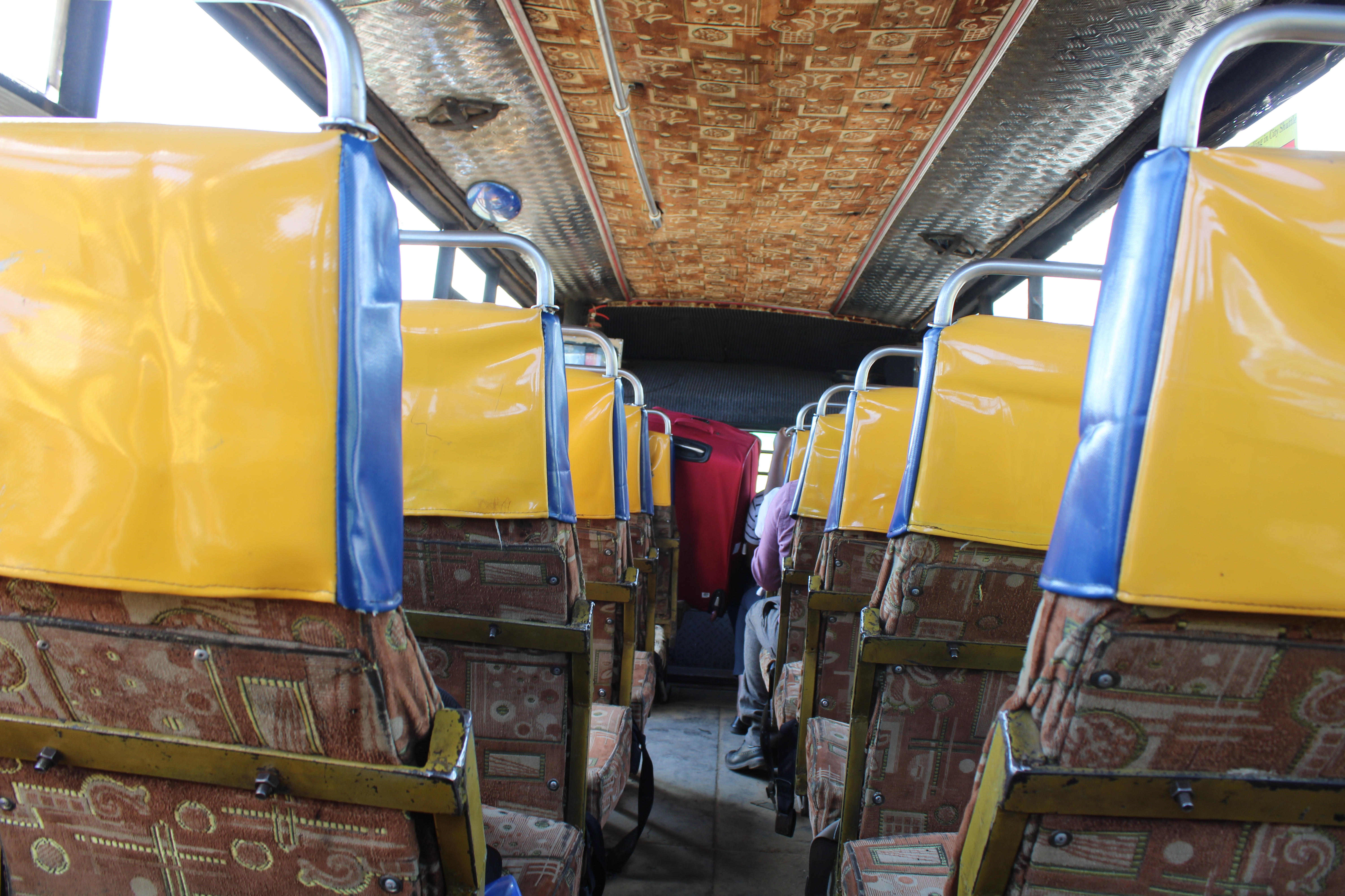 This is an image with the theme "Africa on the Move or Transport" from: Kenya